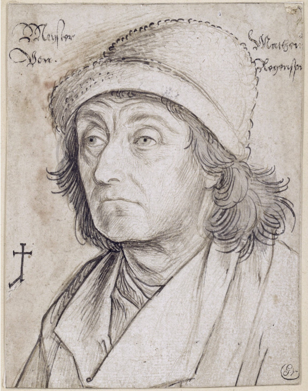 Depicted person: Matthäus Roritzer